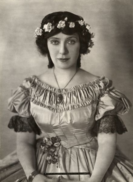 Mary Alden in 1860s costume for her role as Rose Sibley in the Goldwyn Pictures silent drama film Milestones (1920).